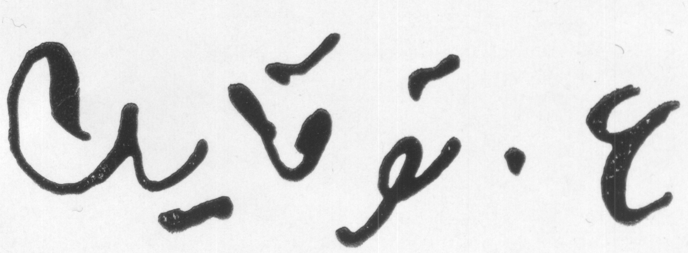 This is a signature of Ghabdulla Tuqay